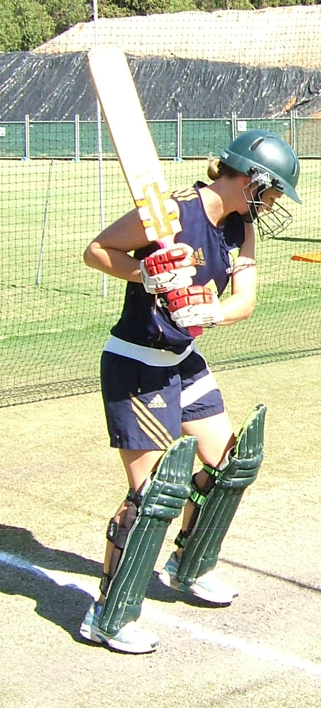 Named person engaging in named action at Adelaide Oval nets/training ground